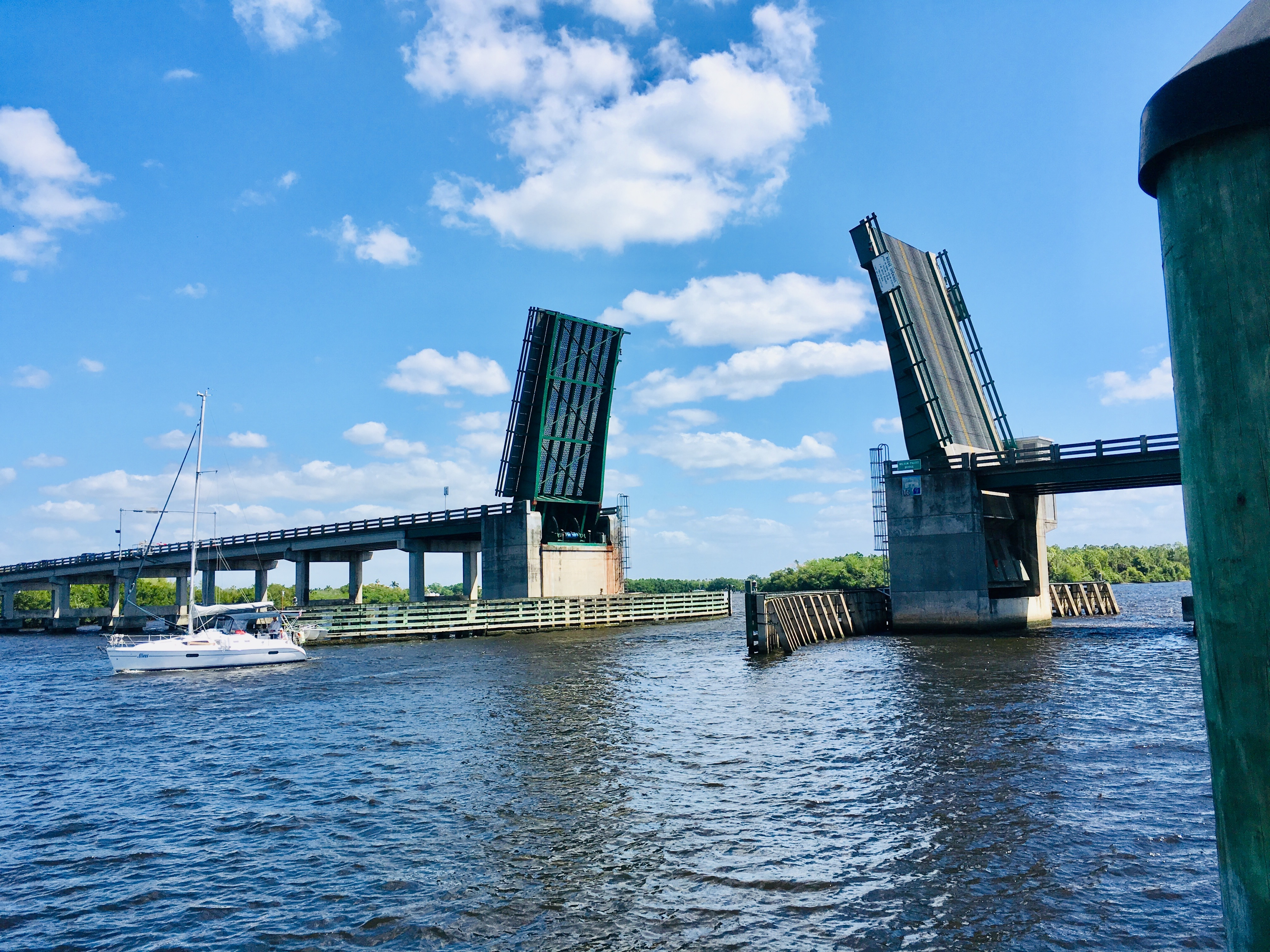 Wilson Pigott Bridge open for vessel traffic